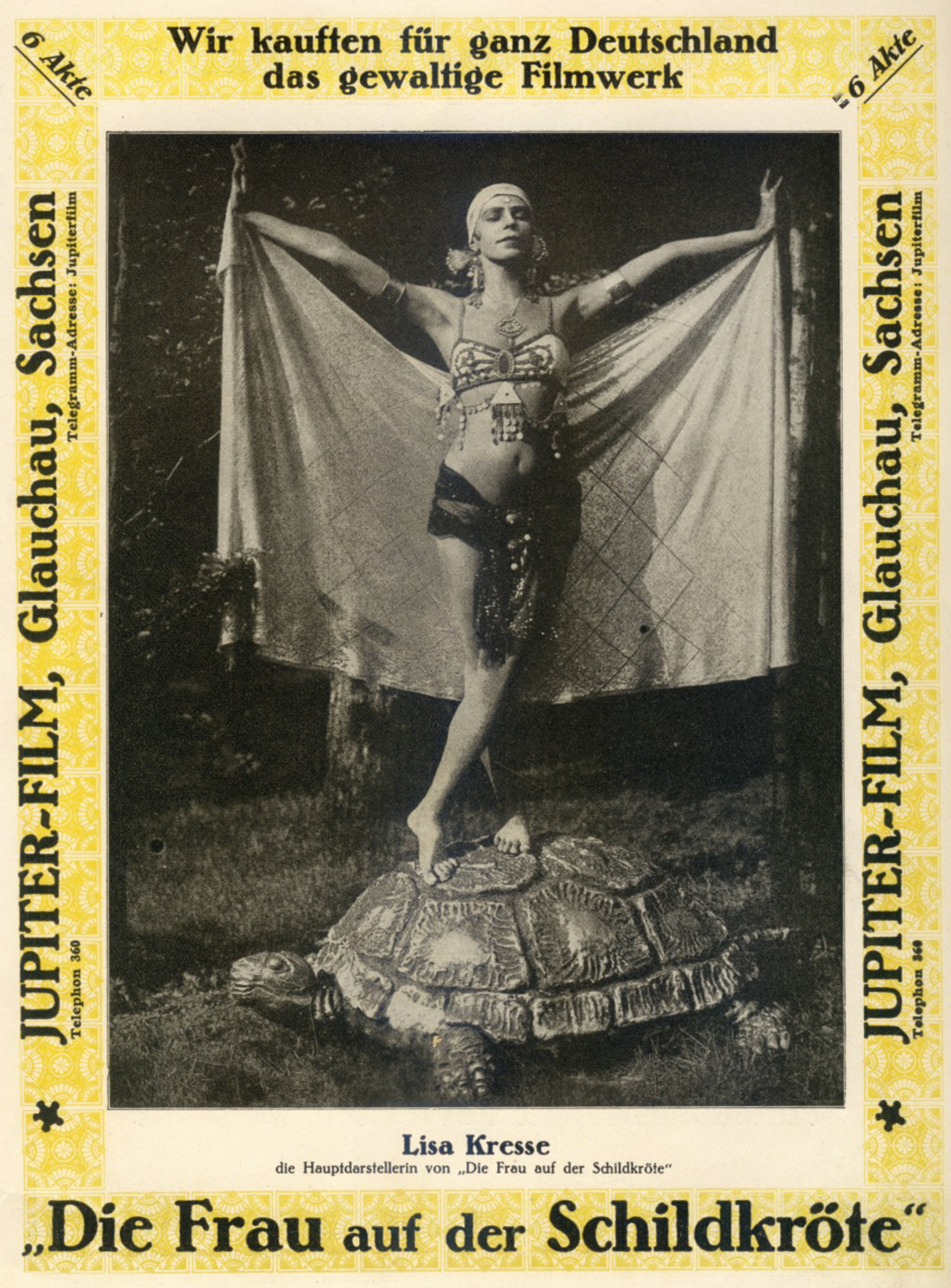 Lisa Kresse, German dancer and silent movie actress